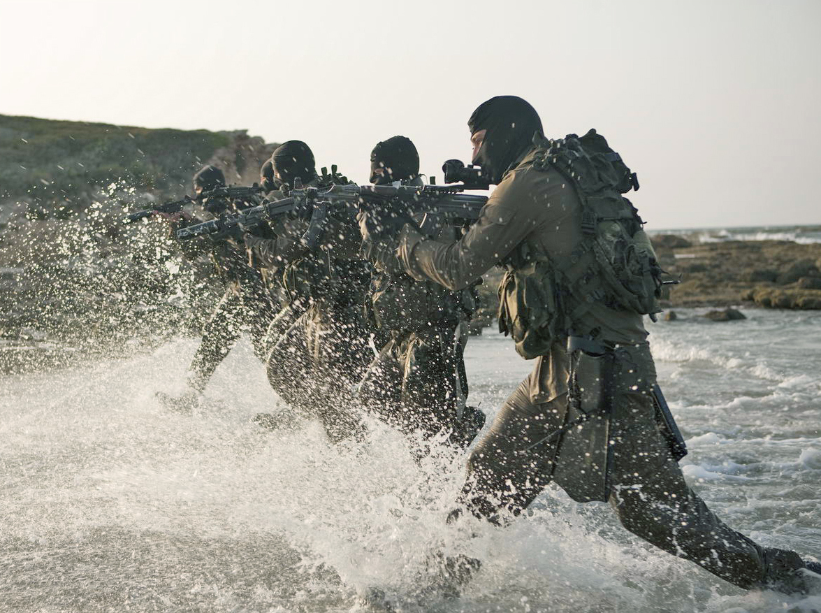 Shayetet 13, IDF's elitle naval commando unit July 5, 2011 Shayetet 13, IDF's elite naval commando unit, received the award for exemplary brigade. An IDF Special Forces unit, Shayetet 13 engages in sea-to-land incursions, counter-terrorism, sabotage, maritime intelligence gathering, and maritime hostage rescue. Having participated in all Israel's major wars and countless operations the unit is highly secretive. Photo by Ziv Koren, an Israeli photojournalist. Featured as photo of the day on December 19, 2011. The Israel Defense Forces Facebook page The Israel Defense Forces blog Follow us on Twitter